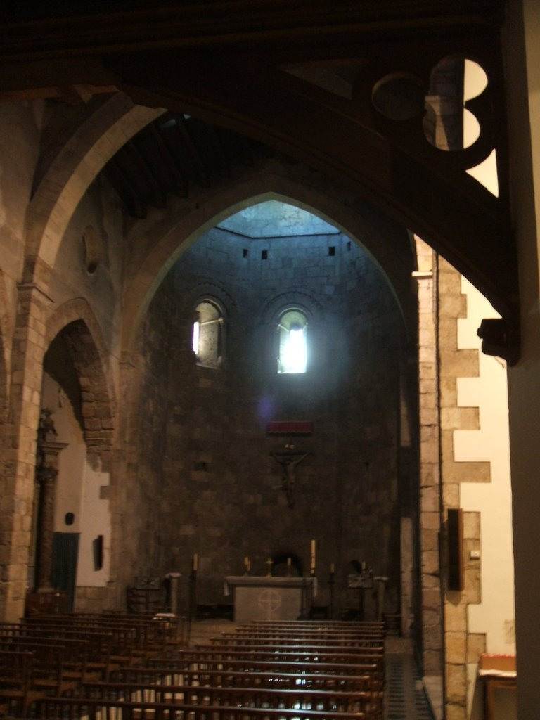 Sainte-Marie-la-Mer : Sainte-Marie church, inside view